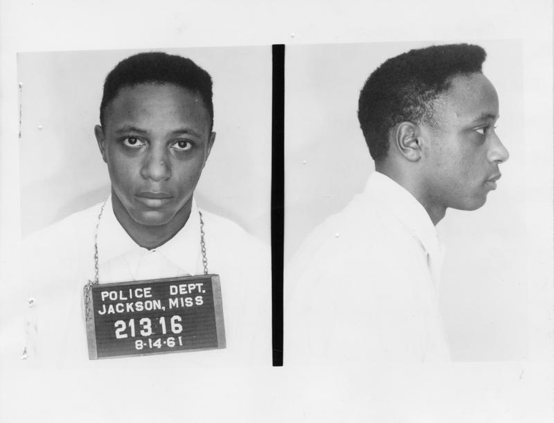 George Raymond Mug Shot George Raymond, Jr. was an eighteen-year-old CORE activist living in New Orleans, Louisiana when he was arrested for his participation in the Freedom Rides. Raymond, along with Pauline K. Sims, was arrested in the Trailways bus terminal in Jackson, Mississippi on 14 August 1961. In addition to his participation in the Freedom Rides, Raymond worked to promote voter registration during Freedom Summer in 1964, and later that year, was severely beaten in Canton, Mississippi. Raymond died in 1973 from a heart attack, at the age of thirty.